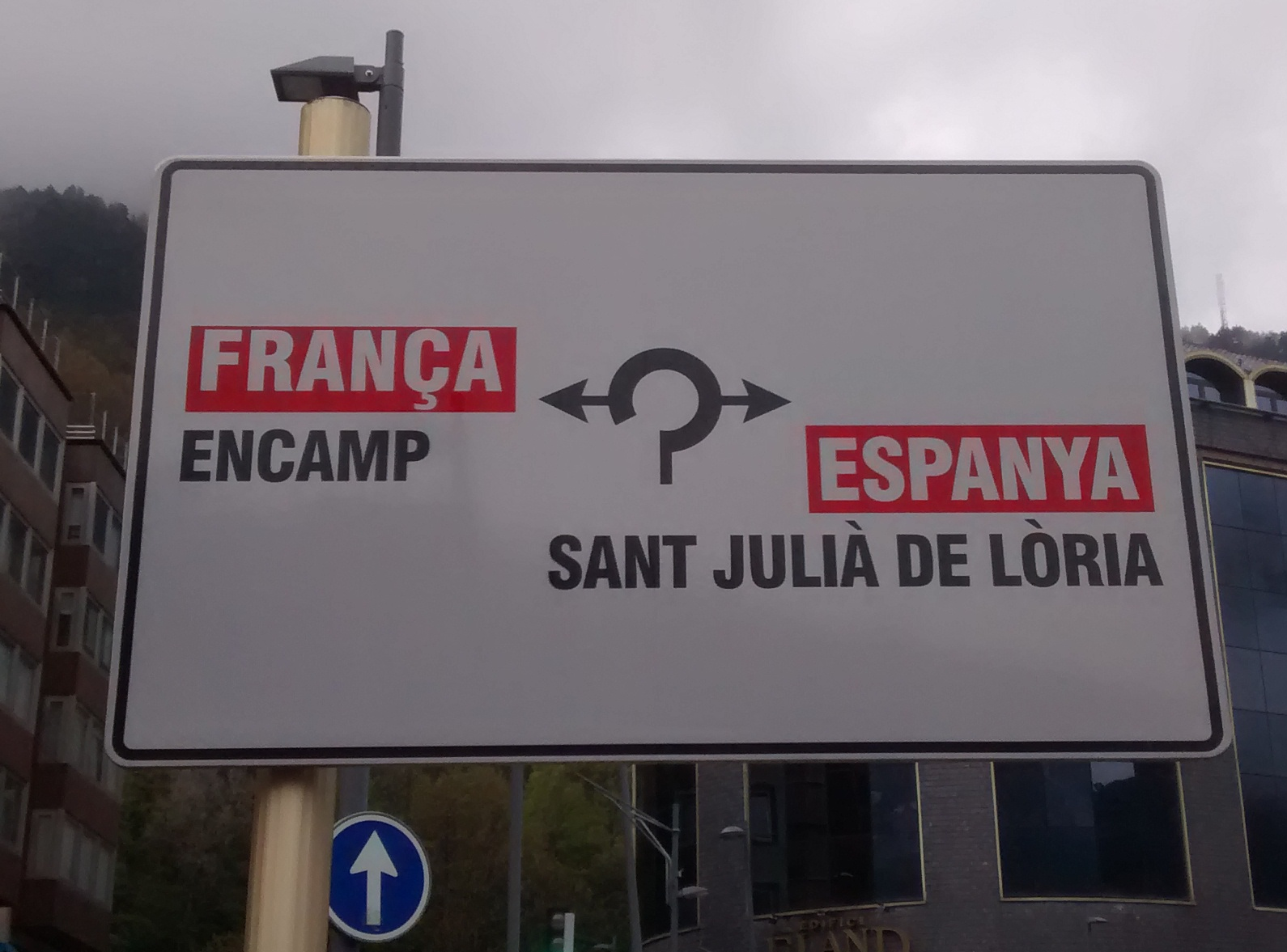 A sign in Andorra with the words "FRANÇA ENCAMP ESPANYA SANT JULIÀ DE LÒRIA".